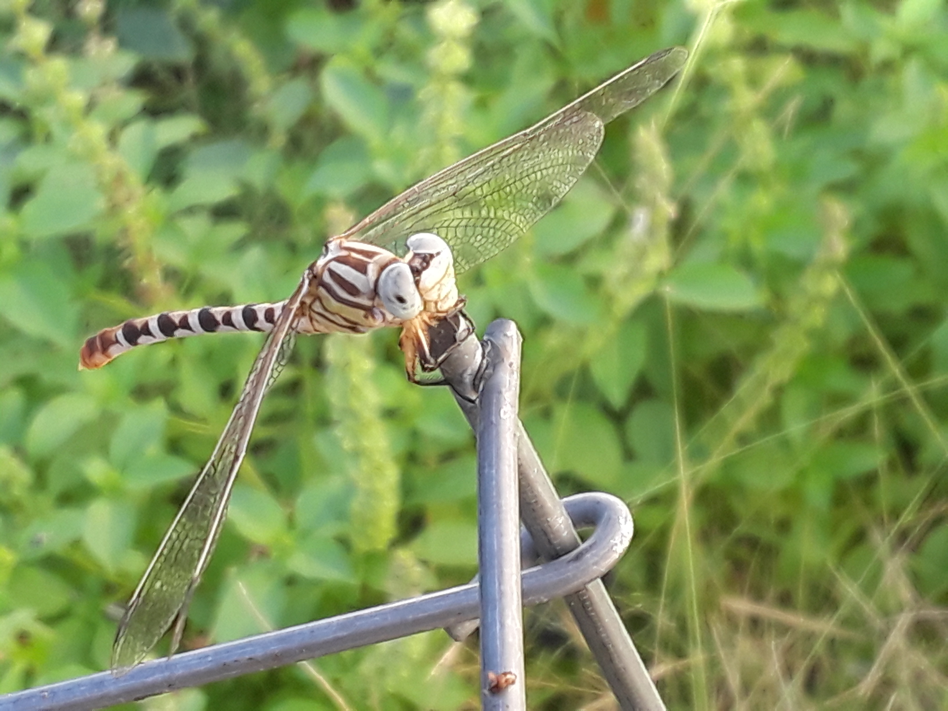 Phoenix, AZ Autumn 2018